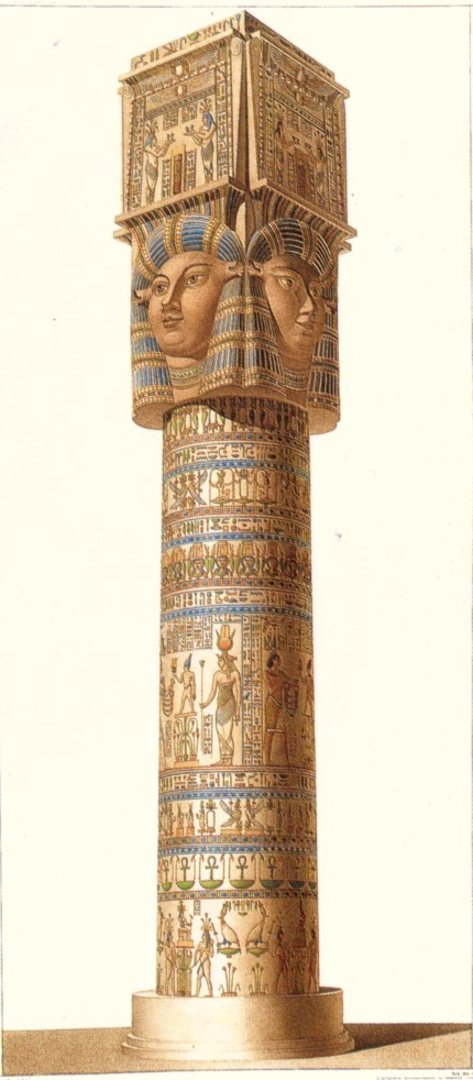 Dendera: Coloured detail of a portico column